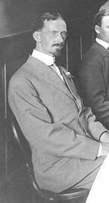 On verso of image: Educators Luncheon; 7/14; Dr. PadelfordPH Coll 727.303 Subjects (LCSH): Luncheons--Washington (State)--Seattle; Alaska-Yukon-Pacific Exposition (1909 : Seattle, Wash.); Exhibitions--Washington (State)--Seattle